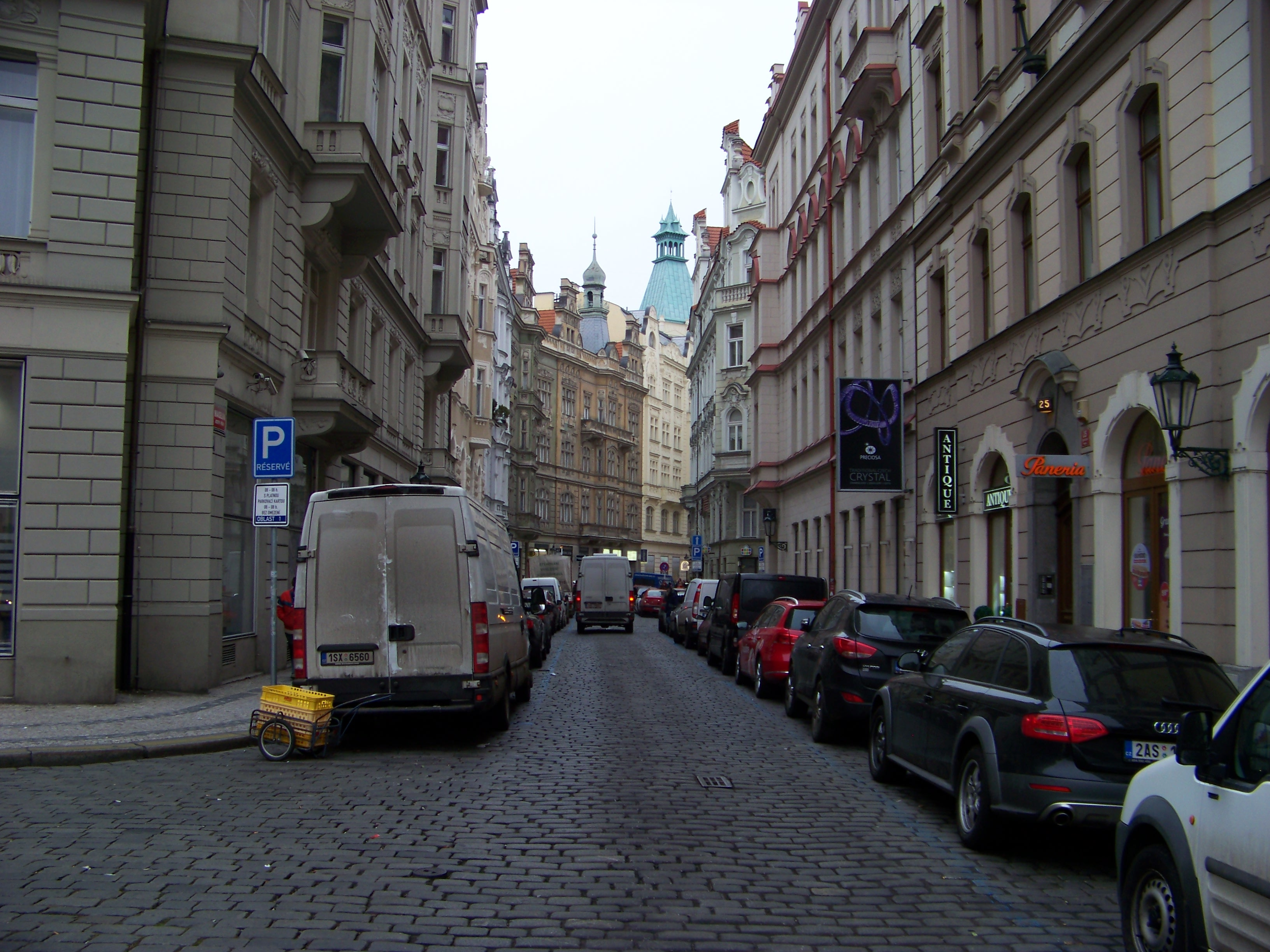 Prague-Josefov and Old Town, Czech Republic. Maiselova street.